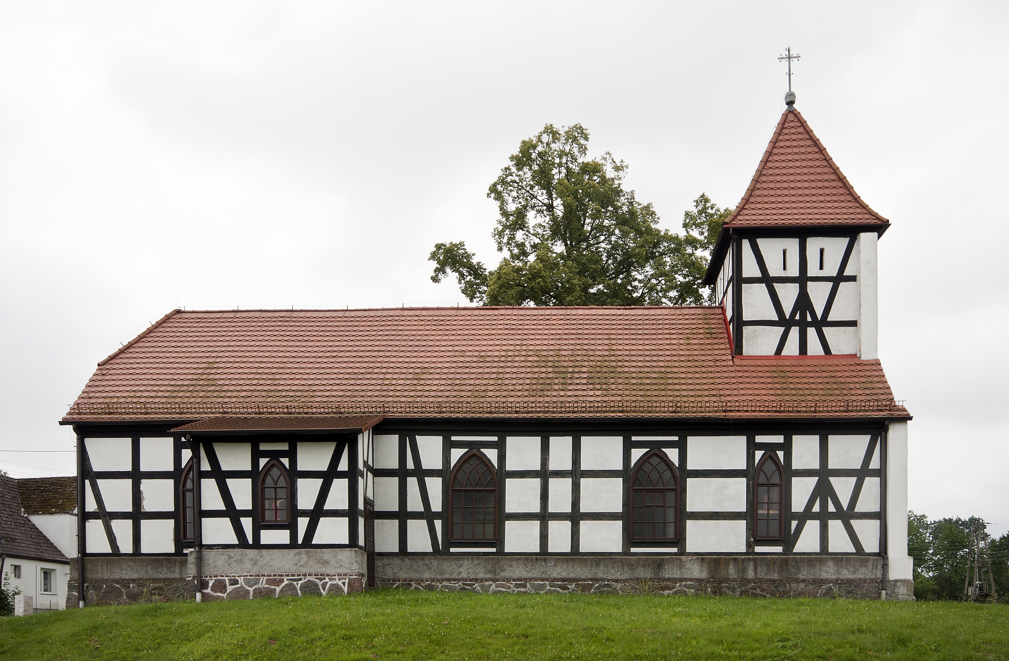 Church in Kłanino, West Pomeranian Voivodeship, Poland.